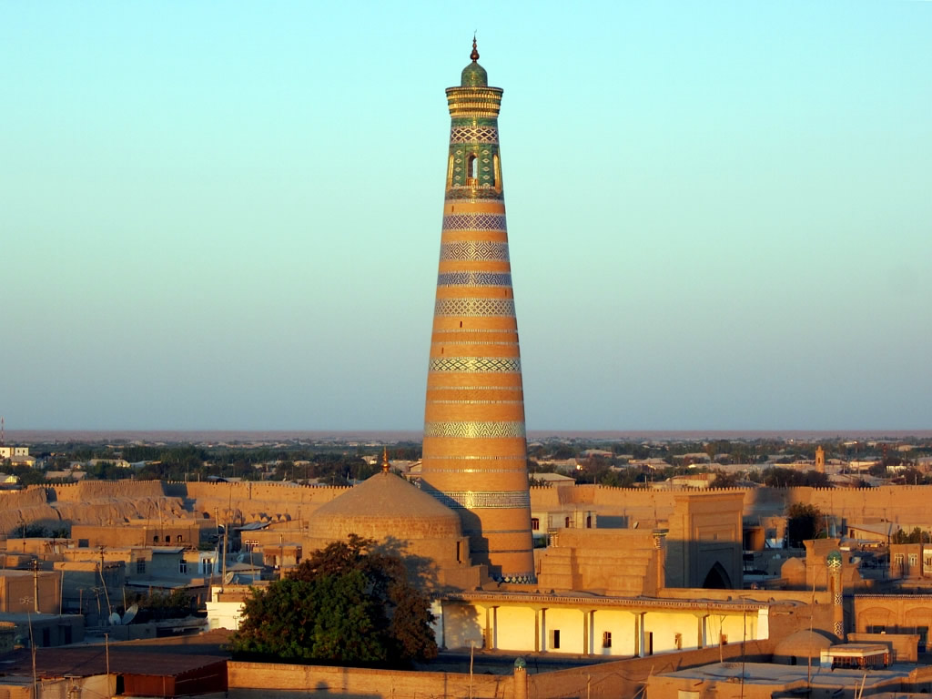 The Islom-Hoja Minaret (1910) at Khiva is the tallest in Uzbekistan. Most of Khiva's monuments are hundreds of years younger than those in Bukhara and Samarkand.